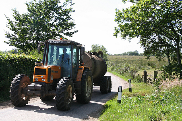 Templeton: by Witheridge Moor. A tractor hauling a slurry trailer. Looking west-north-west